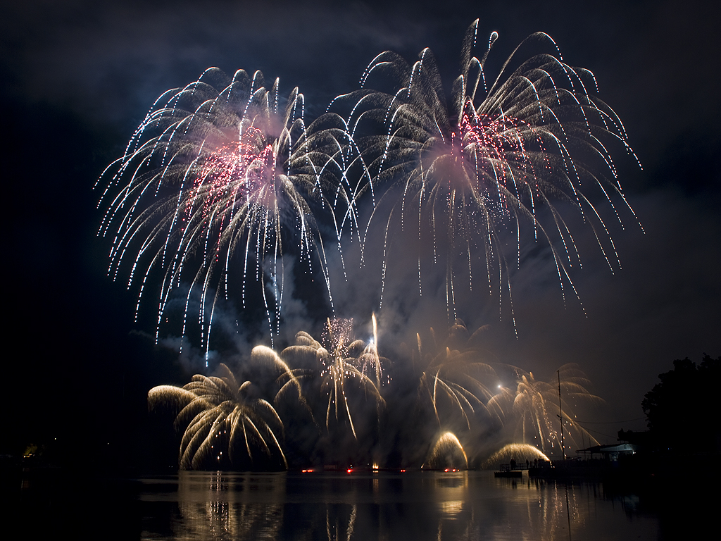 Ignis Brunensis 2010, Noctiluca Germany